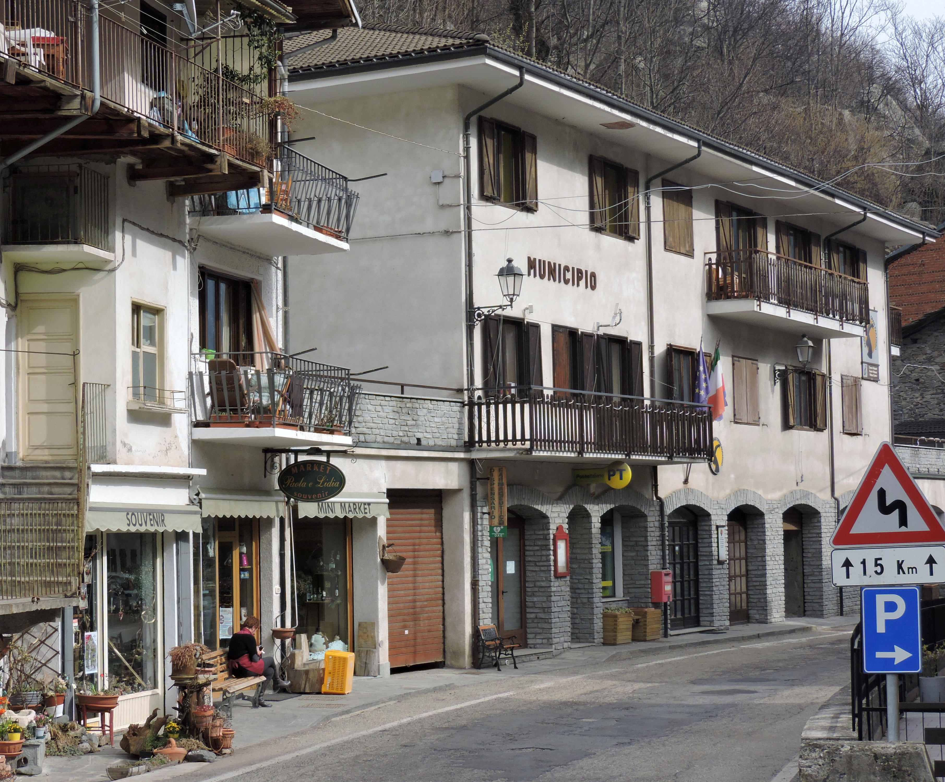 Noasca (TO, Italy): town hall